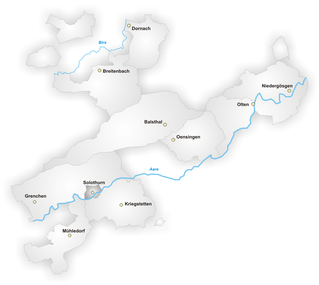 District Solothurn